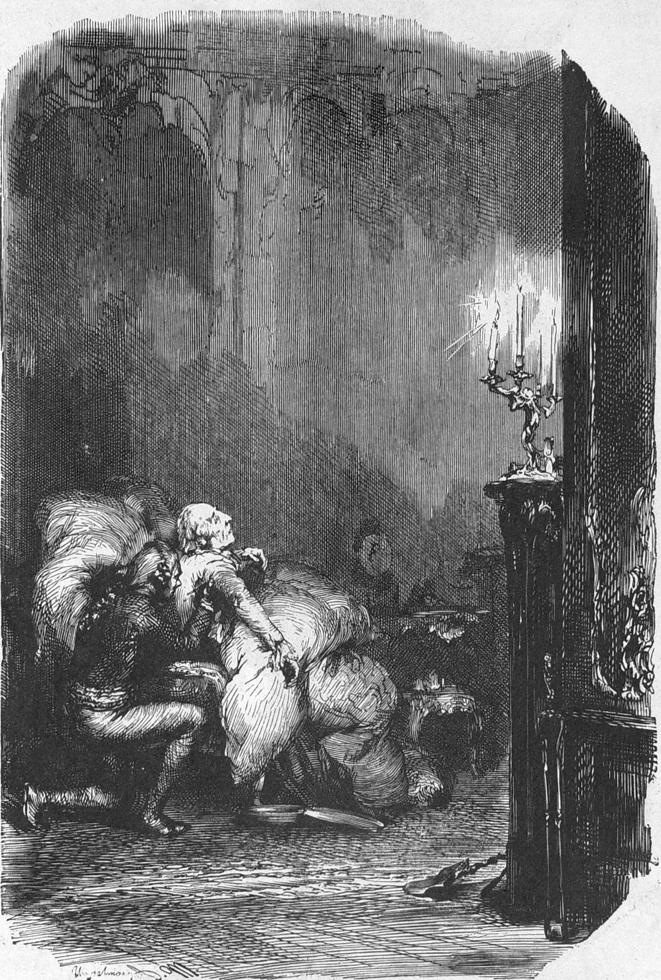 Image from page 578 of journal Die Gartenlaube, 1886.